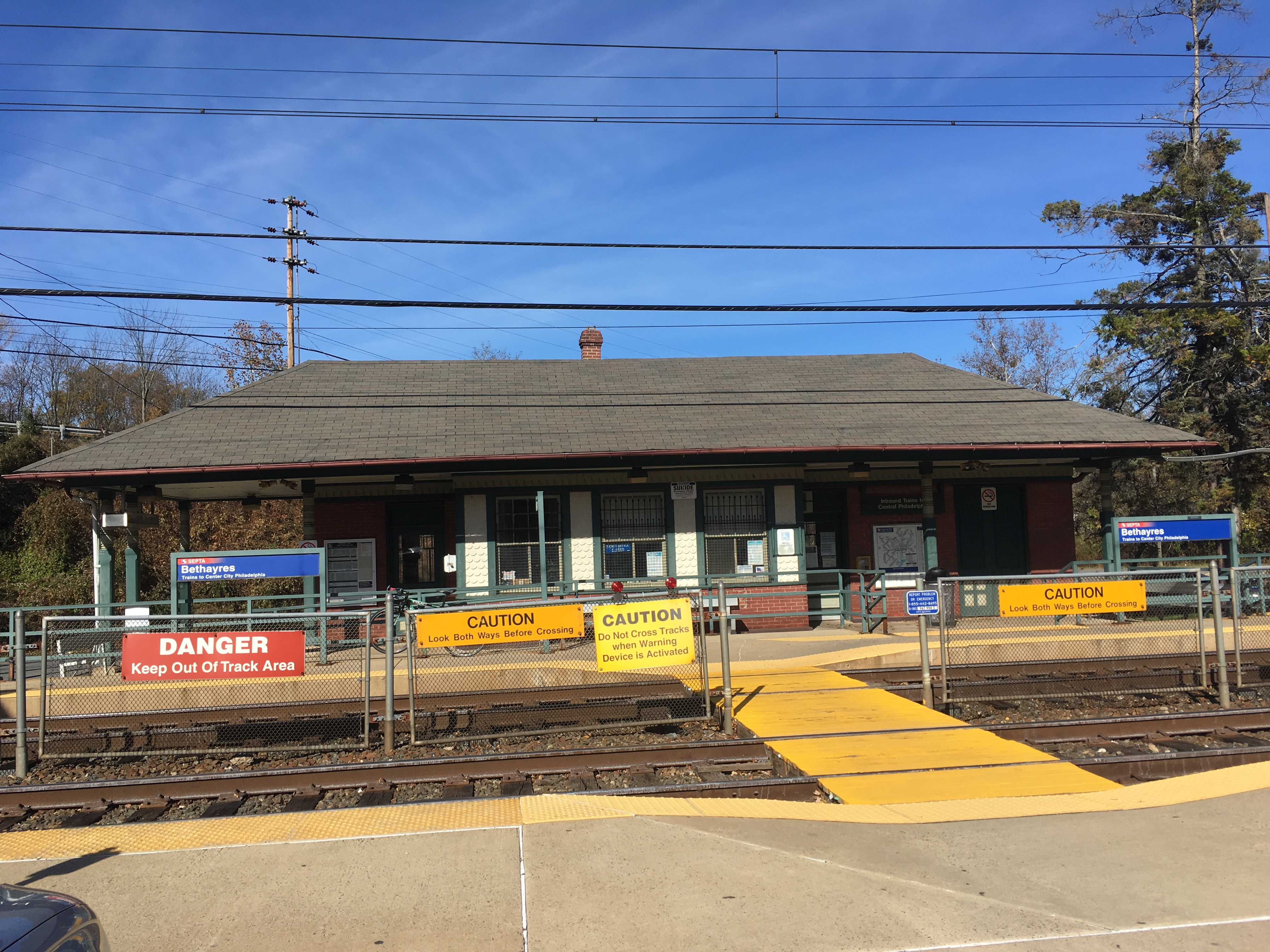 The Bethayres Station on SEPTA's West Trenton Line in Lower Moreland Township, Pennsylvania viewed from the outbound platform.